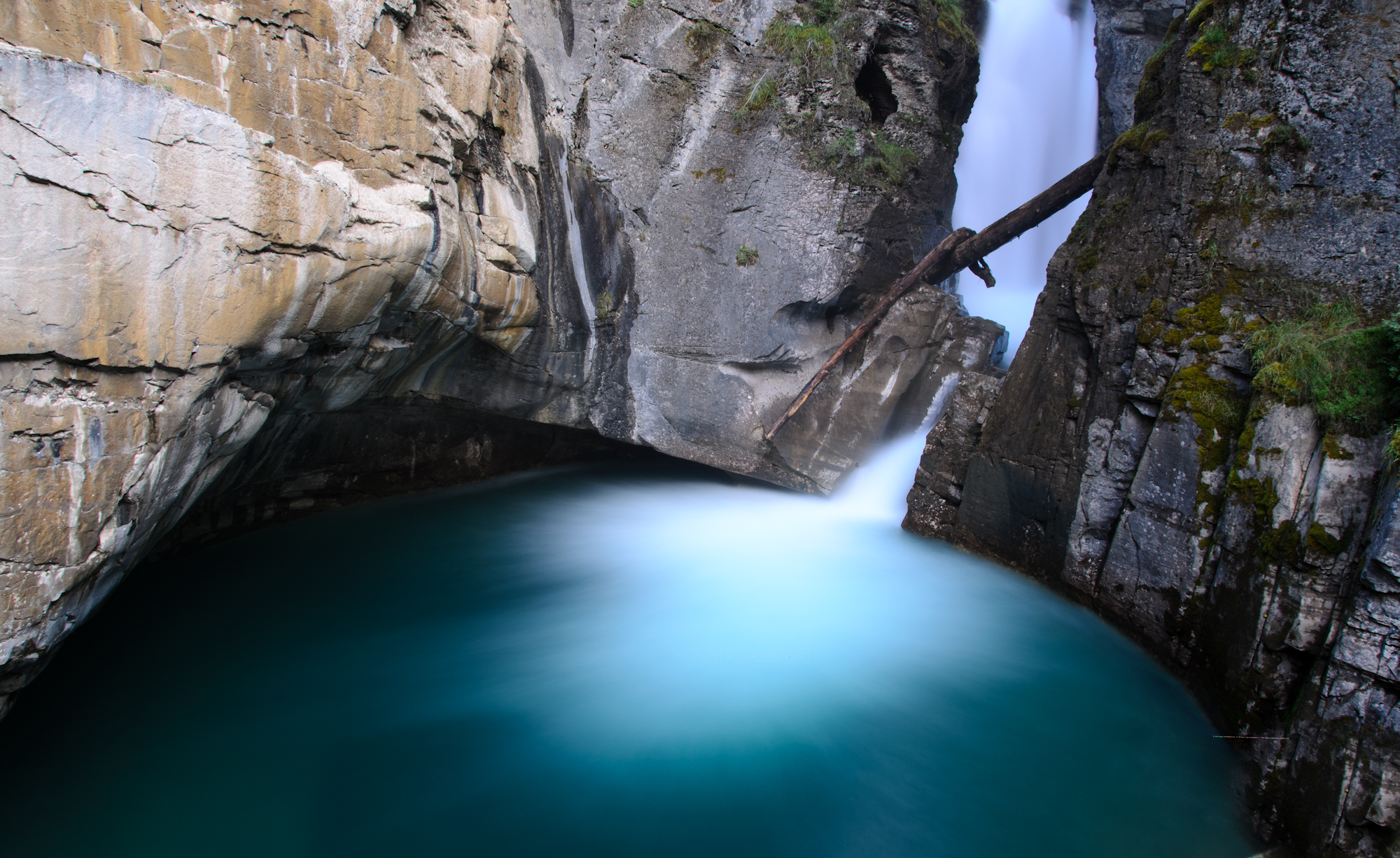 Johnston Canyon-Lower Falls (Banff National Park)